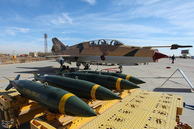 Iranian Air Force exhibition